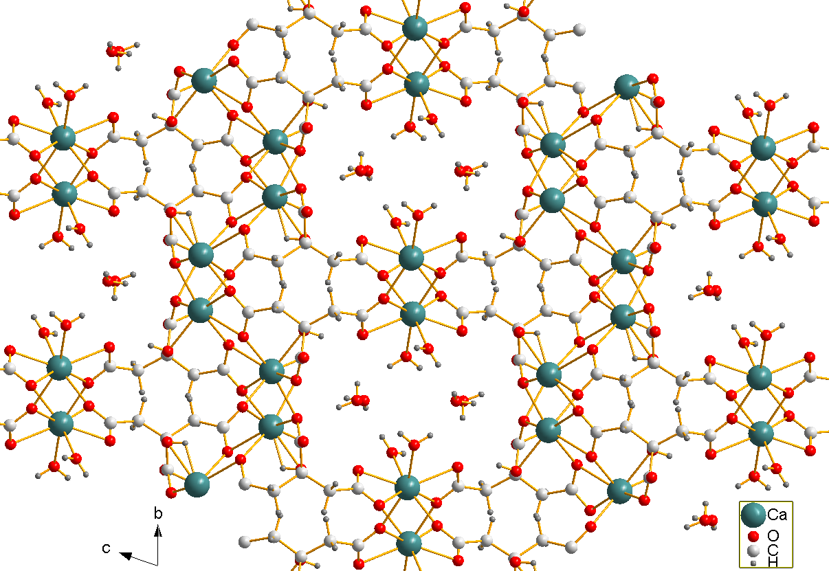 Crystal structure of tricalcium dicitrate tetrahydrate [Ca3(C6H5O7)2(H2O)2]·2H2O based on data from [1] [2]. 2x2x2 unit cells viewed along the a axis